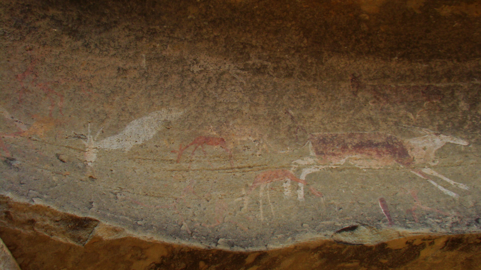 San Painting, Ukalamba Drakensberge, South Africa